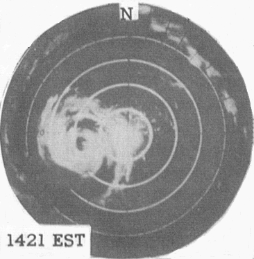 Radar image of Hurricane Connie from the newly installed Cape Hatteras radar on September 12, 1955 at 2:21 pm EST